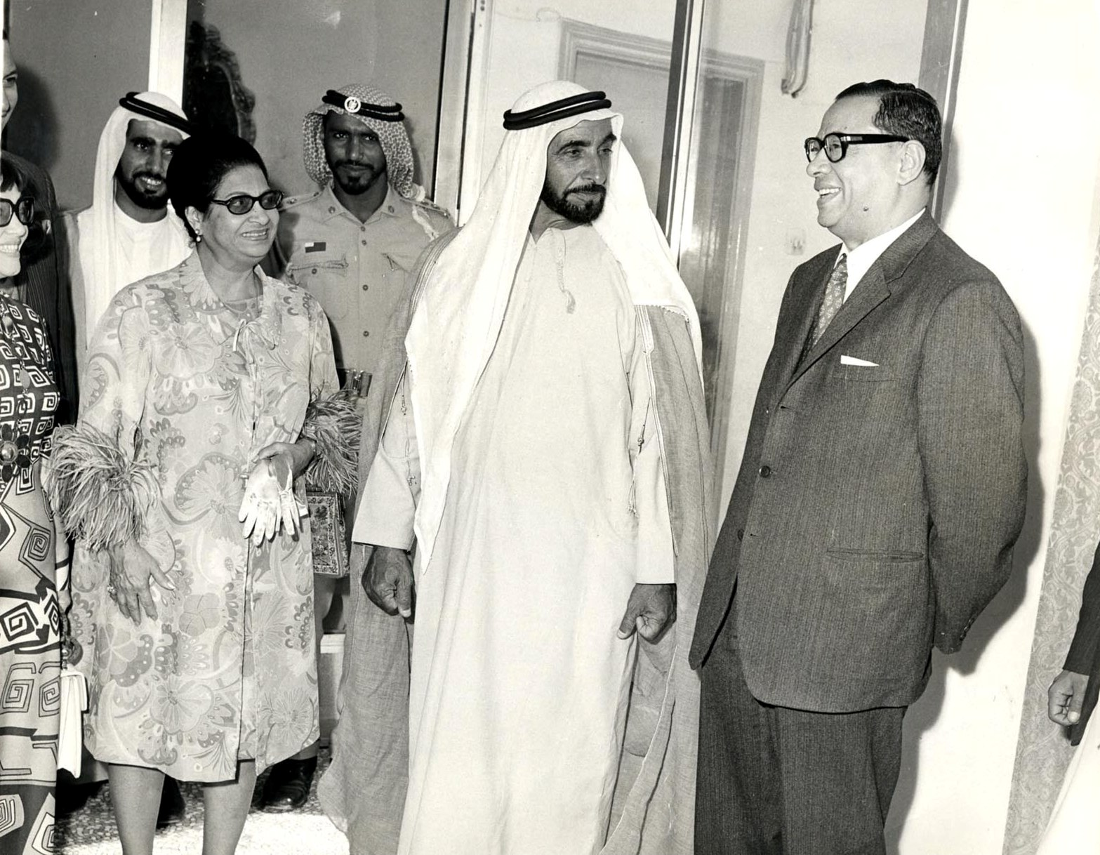 Om Kalthoum and Sheikh Zaied at 1971